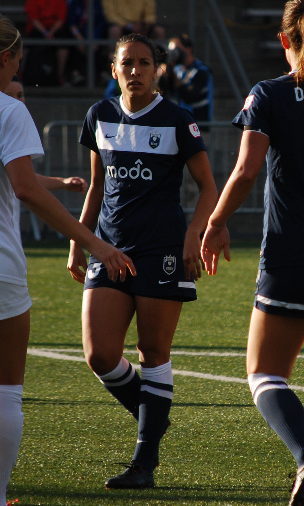 Seattle Reign FC defender Jenny Ruiz in a match against the Washington Spirit on May 16, 2013 at Starfire Stadium in Tukwila, Washington.